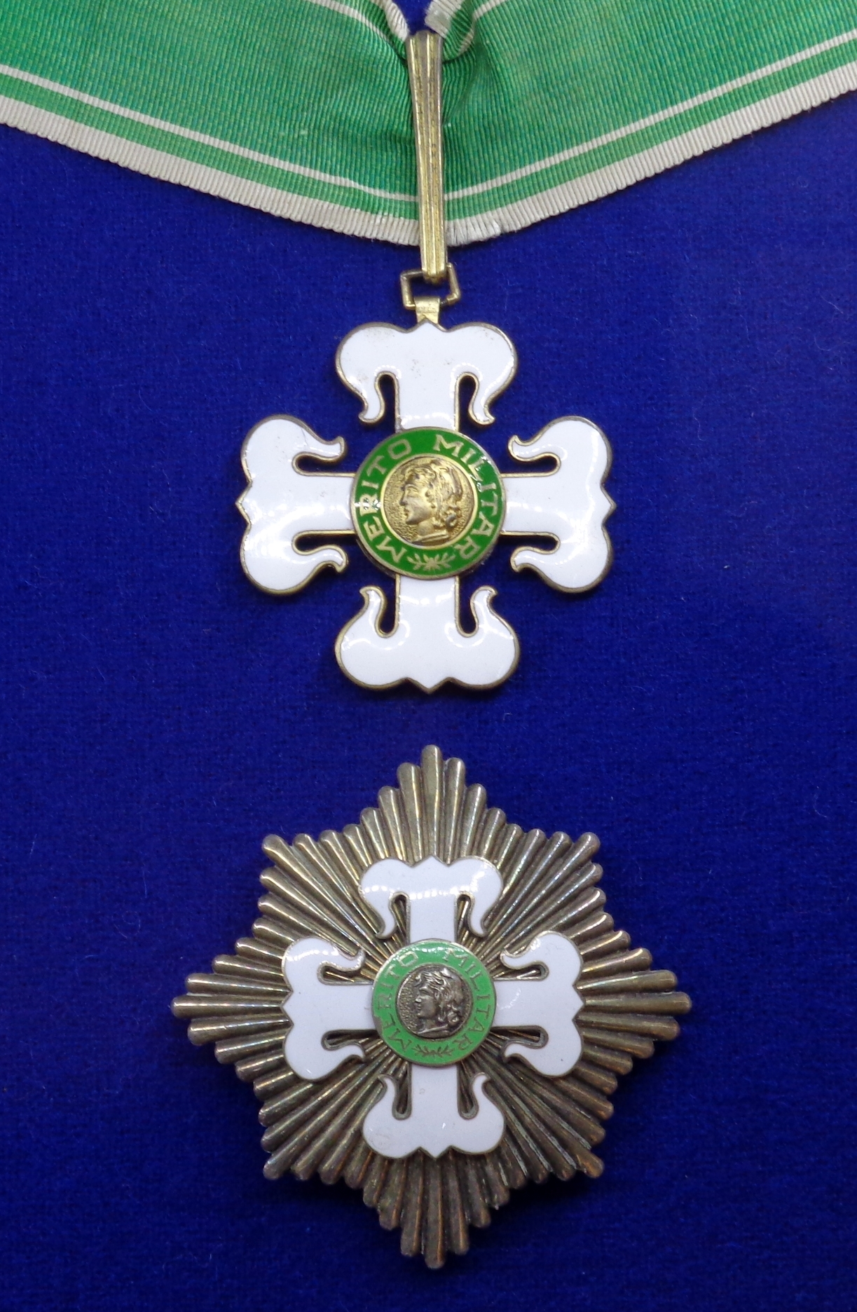 Order of Military Merit 2nd class, insignias. Brazil. The exhibition of the Tallinn Museum of Orders of Knighthood, Estonia.